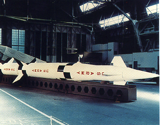 Image of LIM-49A Spartan